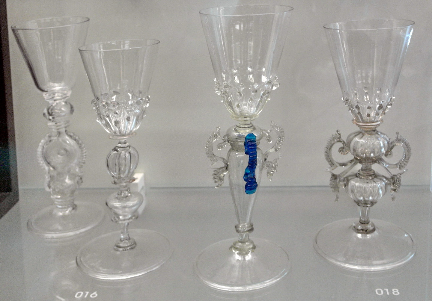 17th century glasses, produced in Liège à la façon de Venise, formerly in the collection of the Musée du verre, now the Grand Curtius in Liège, Belgium.